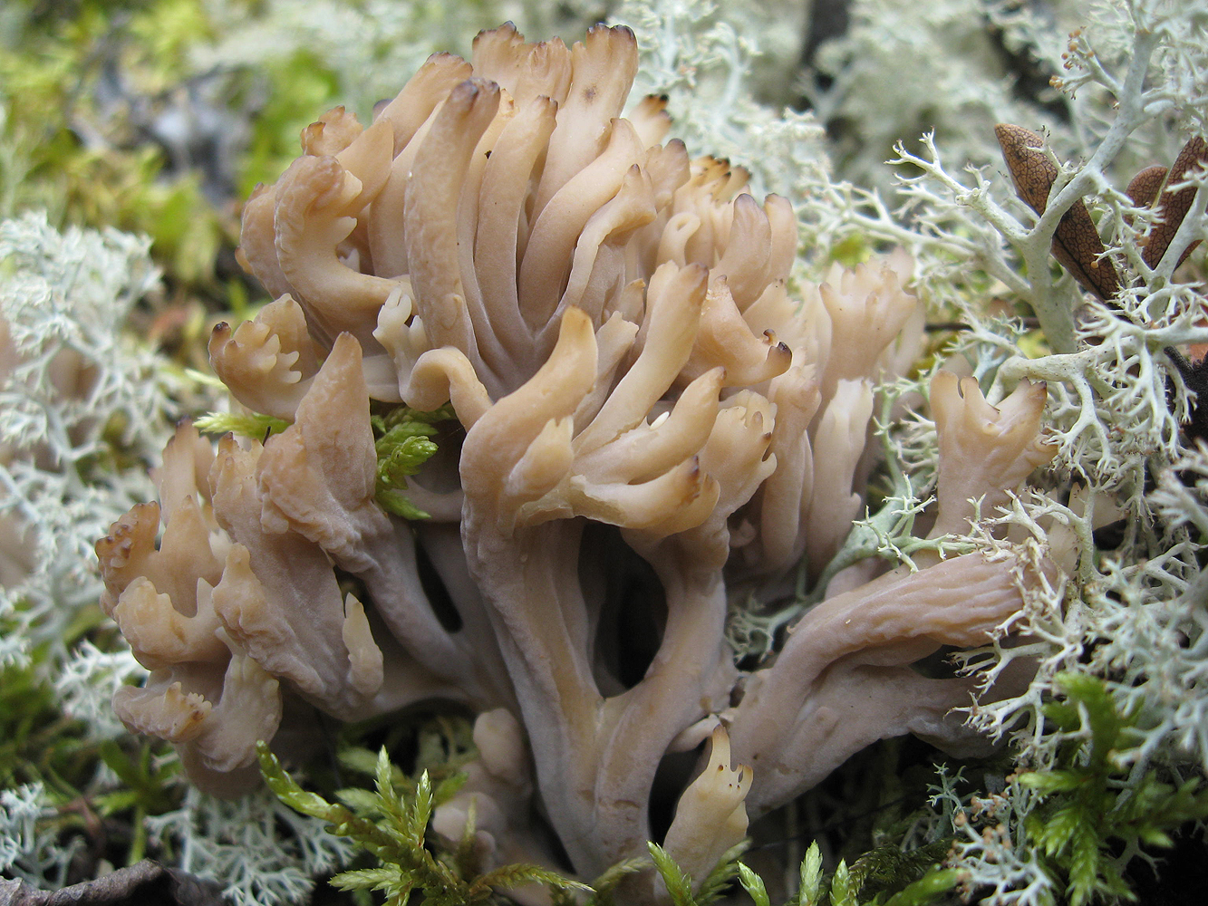 The white coral fungus Clavulina cristata. Photographed in La Ronge, Northern Saskatchewan, Canada.